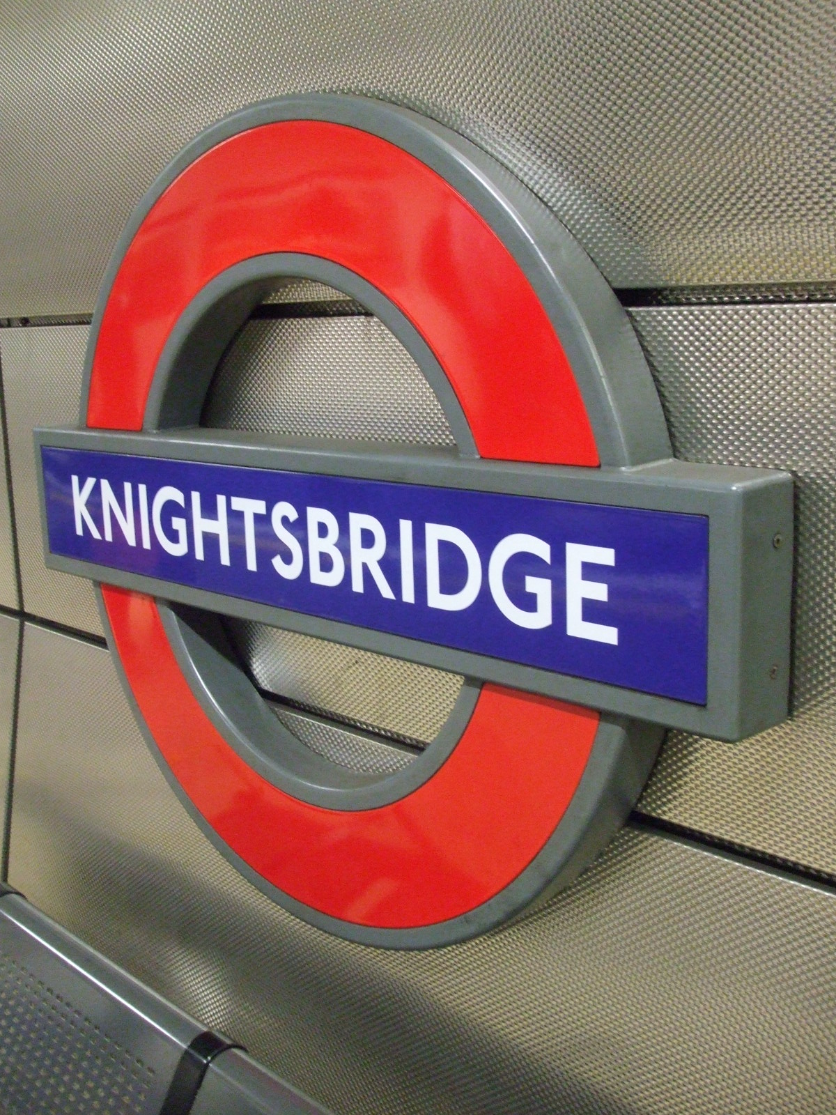 Knightsbridge tube station platform roundel